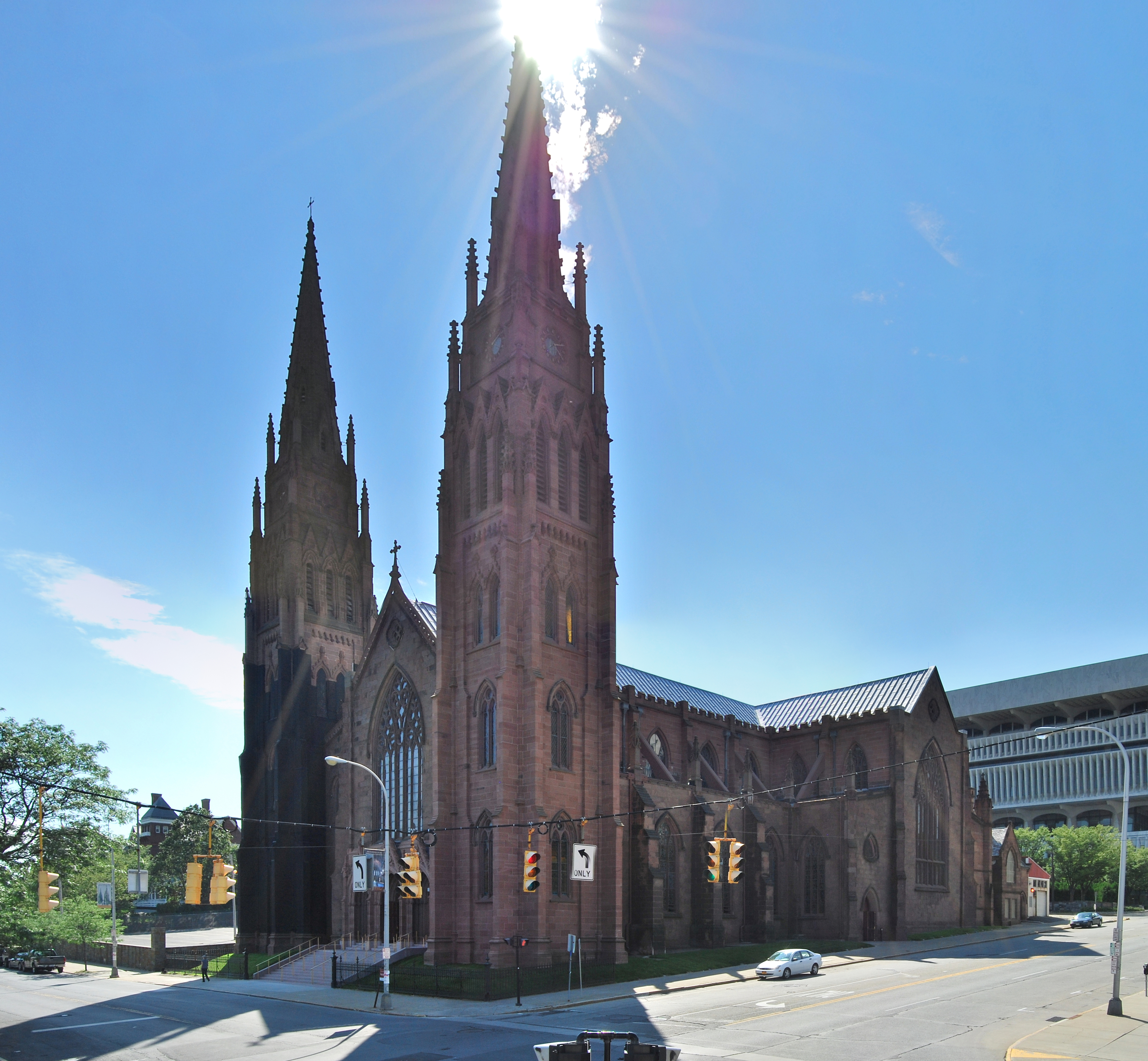 Cathedral of the Immaculate Conception in Albany, New York